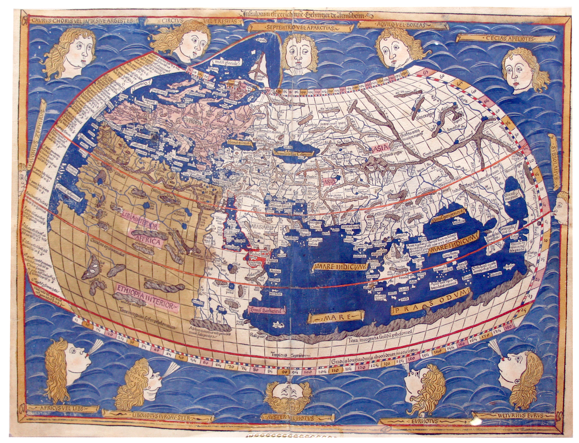 The world map from Leinhart Holle's 1482 edition of Nicolaus Germanus's emendations to Jacobus Angelus's 1406 Latin translation of Maximus Planudes's late-13th century rediscovered Greek manuscripts of Ptolemy's 2nd-century Geography. Ptolemy's second projection.